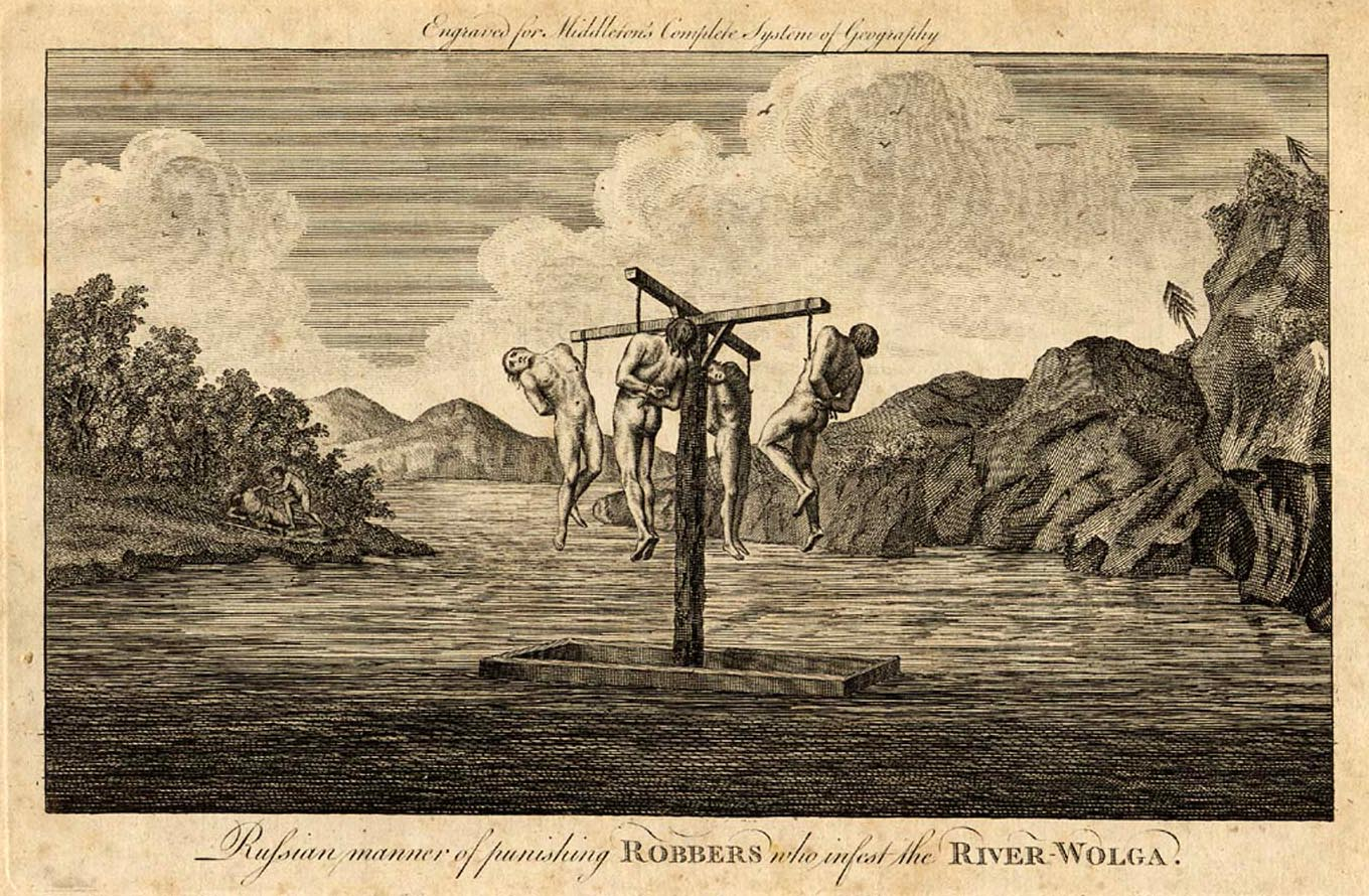 the executing robbers